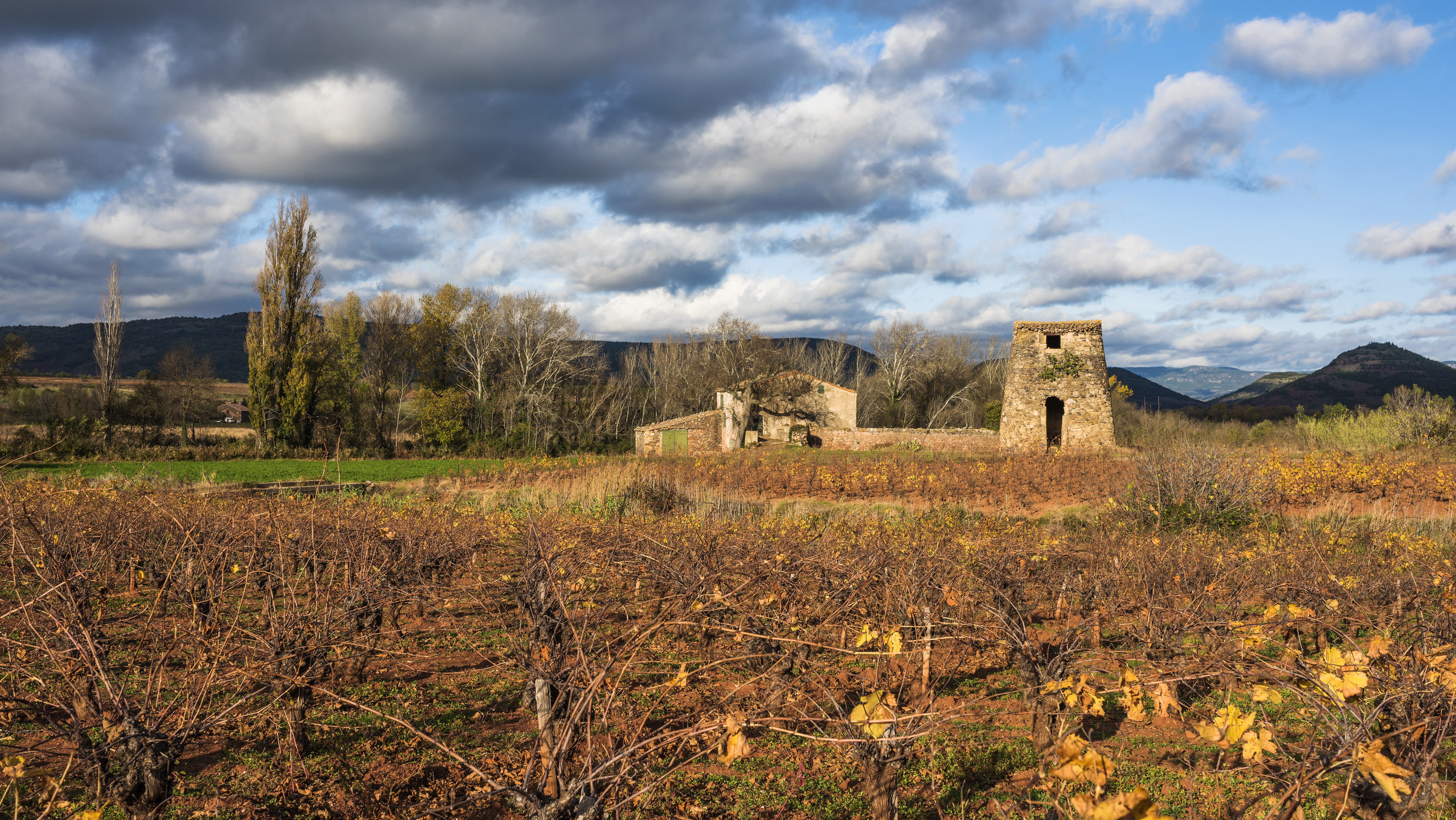 Former windmill (XVIIIc.) with a a two-sided roof. Salasc, Hérault, France.